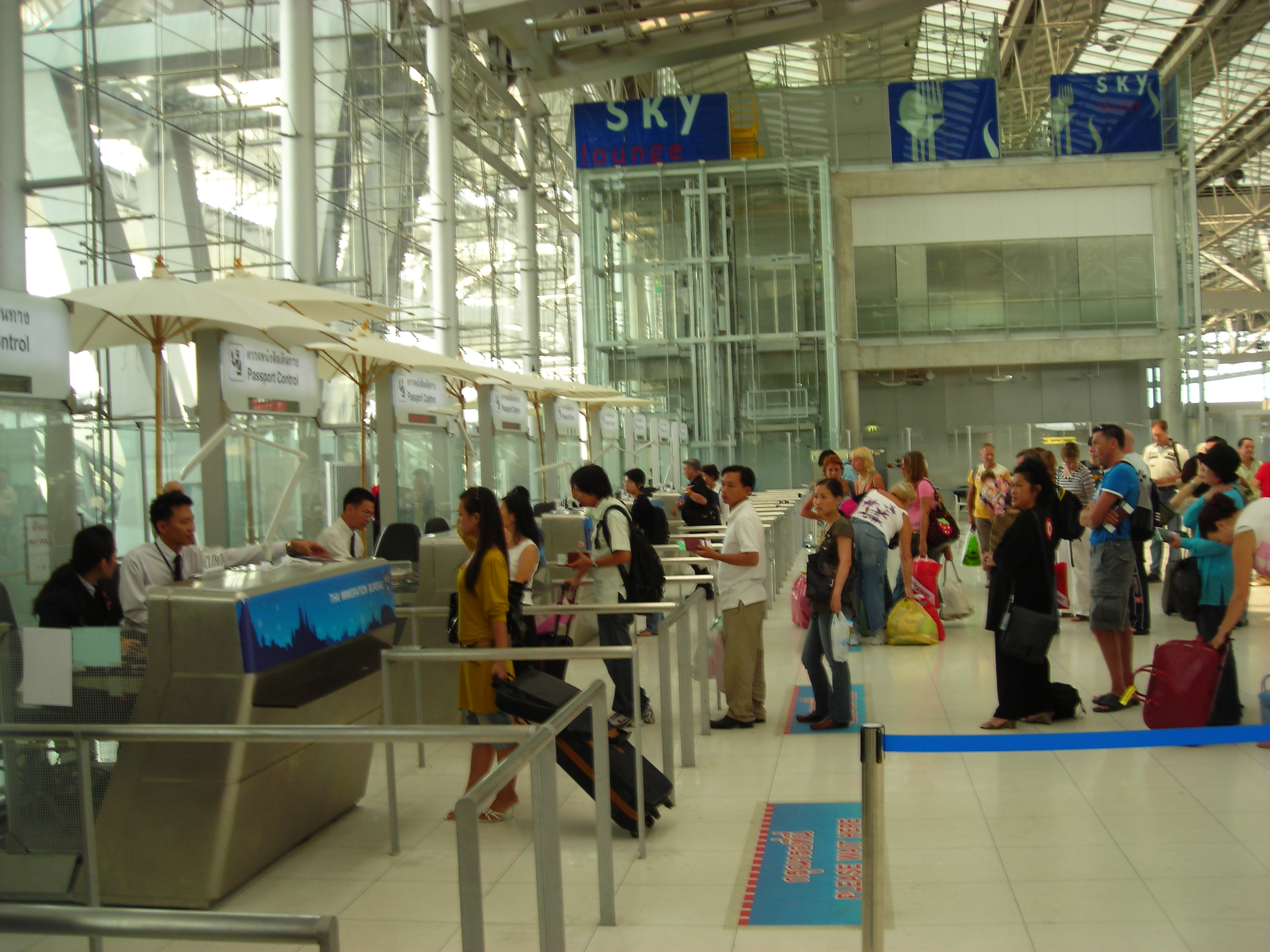 Passport control counters at Suvarnabhumi International Airport near Bangkok, Thailand.